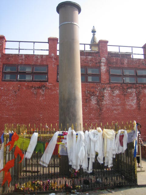 Ashok Sthamba in Lumbini